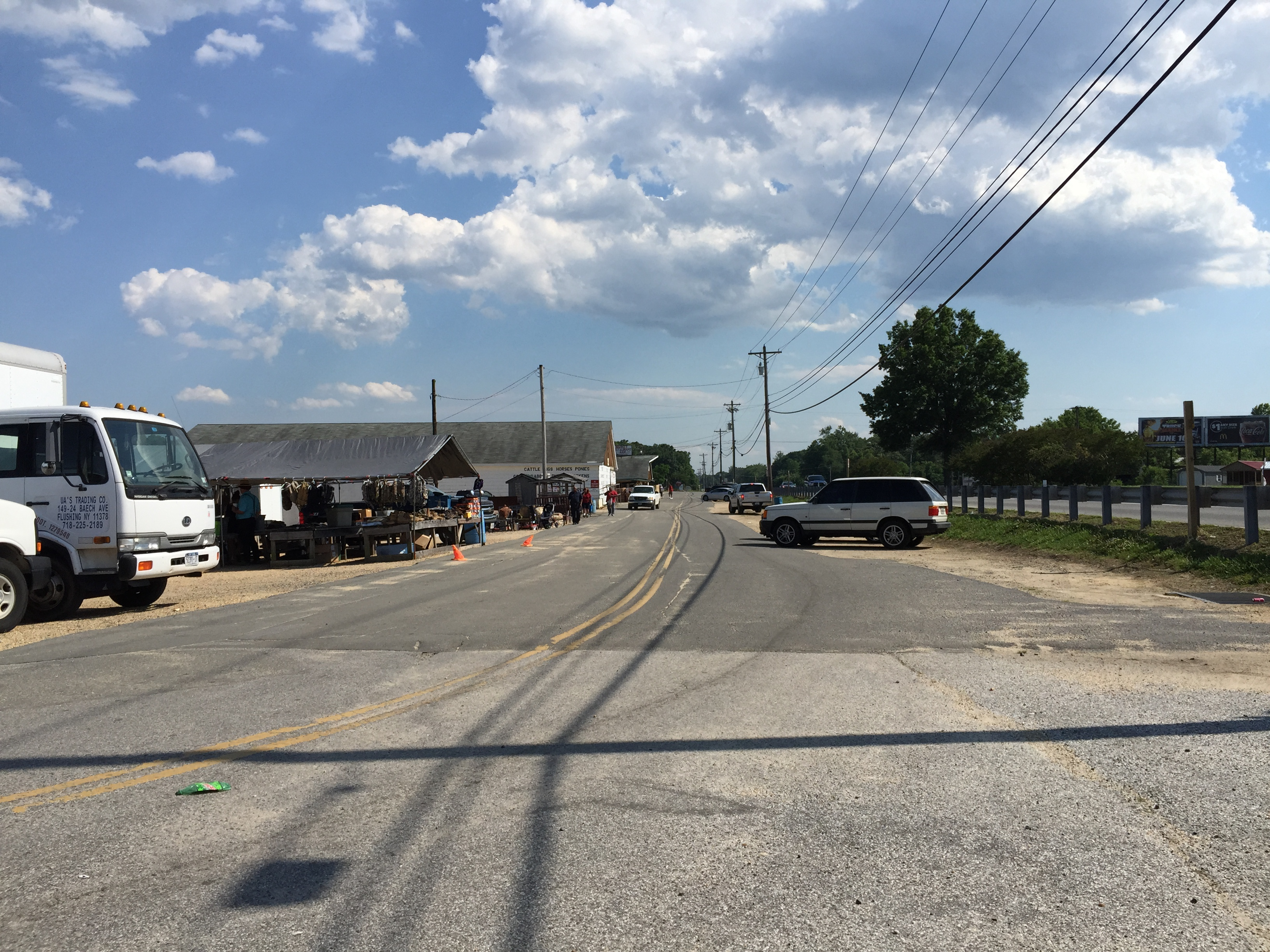 View north from the north end of Maryland State Route 863 in Charlotte Hall, St. Mary's County, Maryland